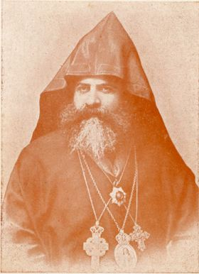 Archbishop Yeghishe Tourian (original caption: Prelate of Izmir; philologist, poet and former deputy abbot of Armash Theological Seminary) [to become 1909-1910 Armenian-Apostolic Patriarch of Constantinople and 1921-1929 Patriarch of Jerusalem]